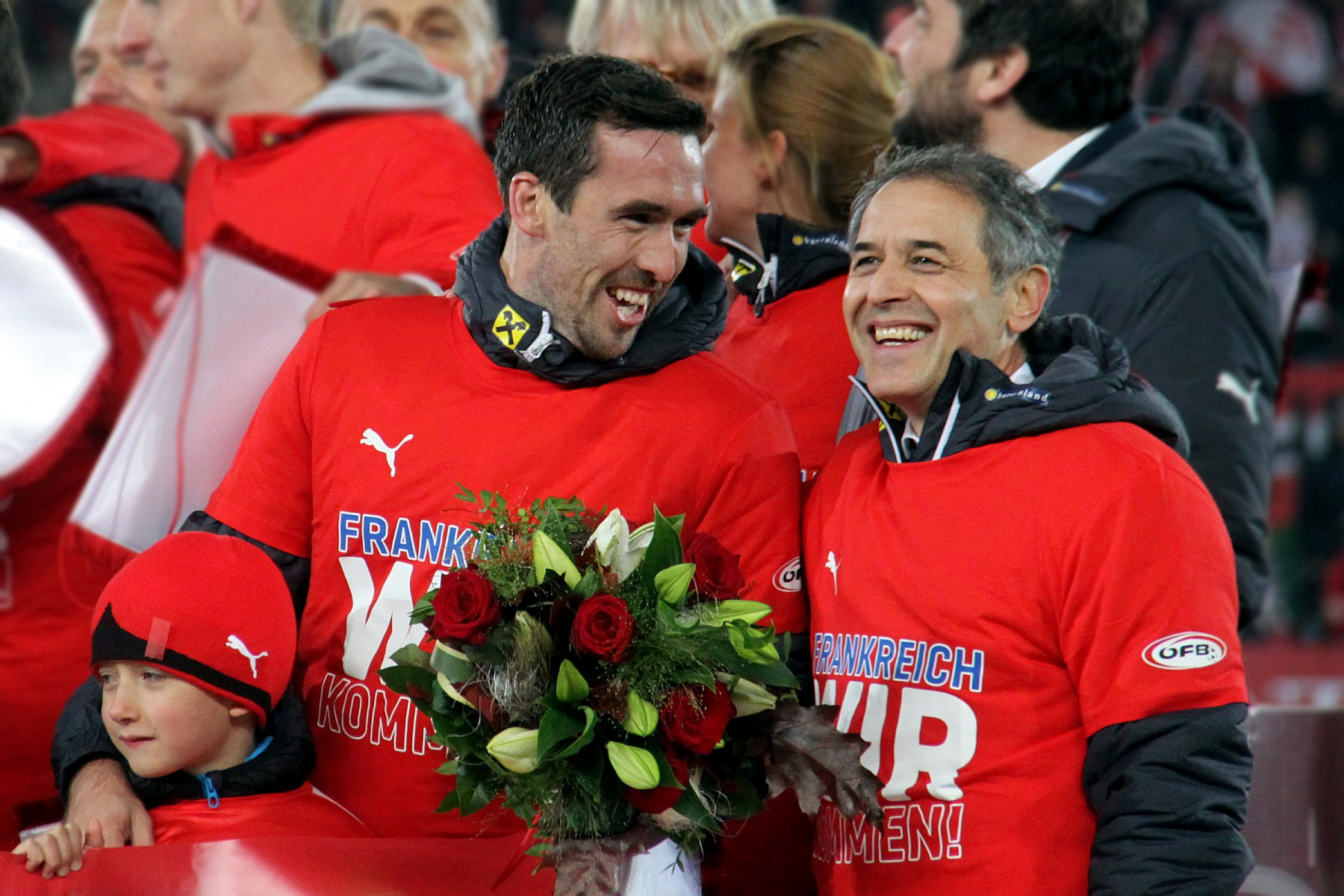 UEFA Euro 2016 qualifying, Group G – Austria (red shirts) vs. Liechtenstein (blue shirts) 3–0 (1–0) on 2015-10-12 in Ernst-Happel-Stadion, Vienna – The photo shows Marcel Koller (headcoach, right) and teamcaptain Christian Fuchs (links).